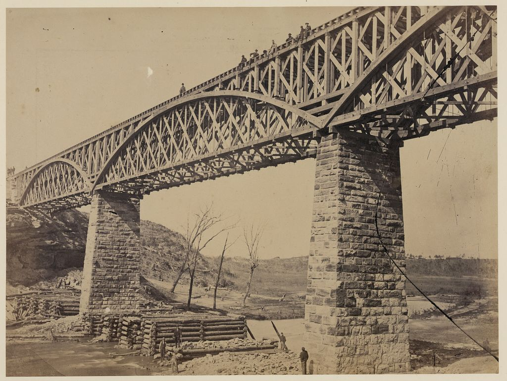 Potomac Creek Bridge, Aquia Creek & Fredericksburg Railroad, (April 12, 1863)